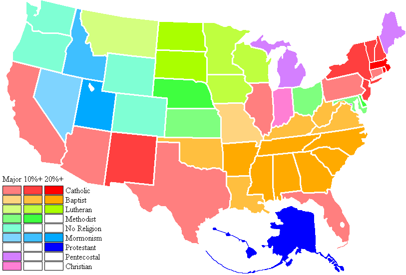 Selects the religion with the highest percentage against the national average (ex. New Jersey Catholic(39%) - Average Catholic(23%) = (16%) on map)). Created using :en:Image:BlankMap-USA-states.png|Image:BlankMap-USA-states.png and data from the American Religious Identification Survey.